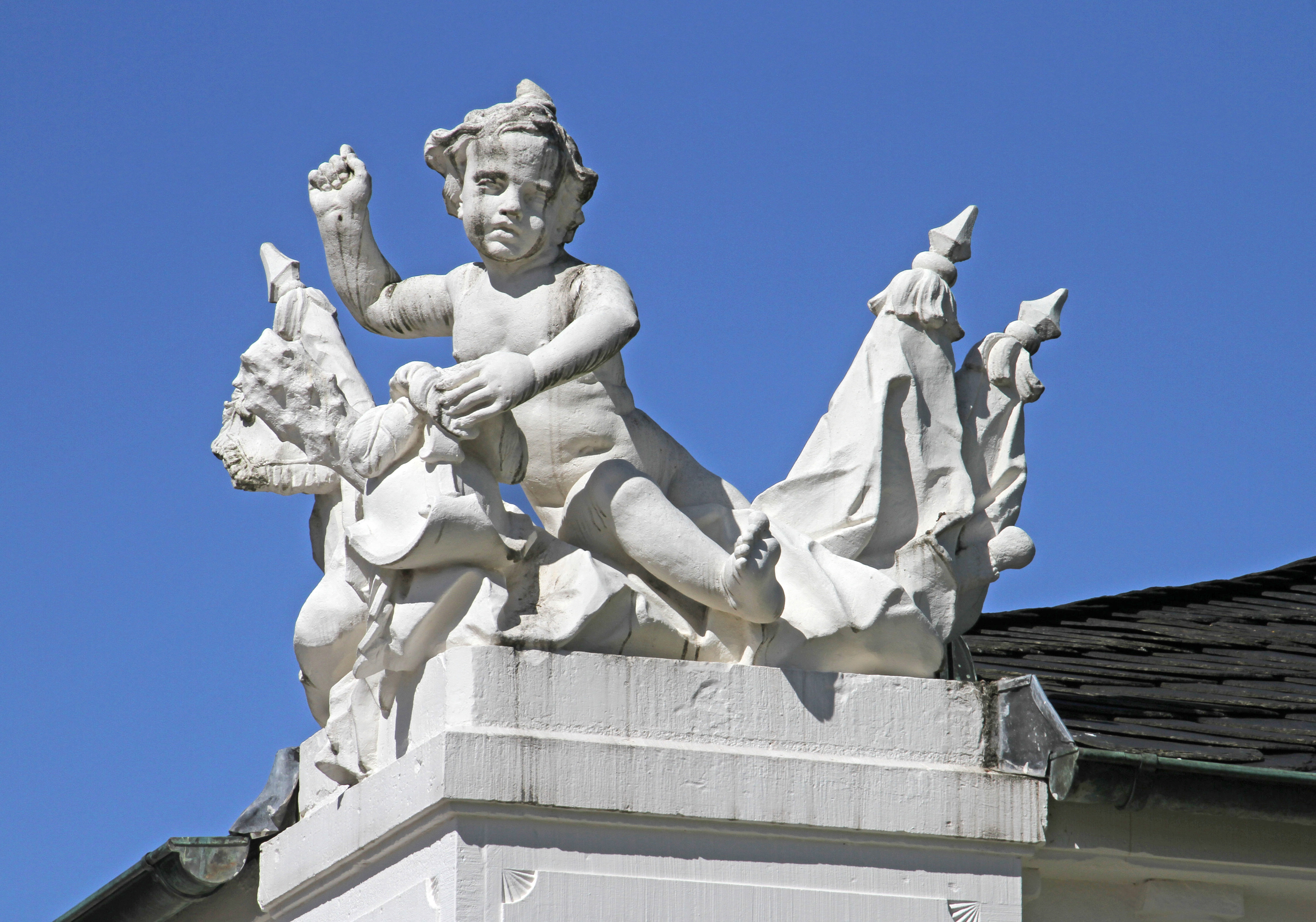 Karlsruhe Palace